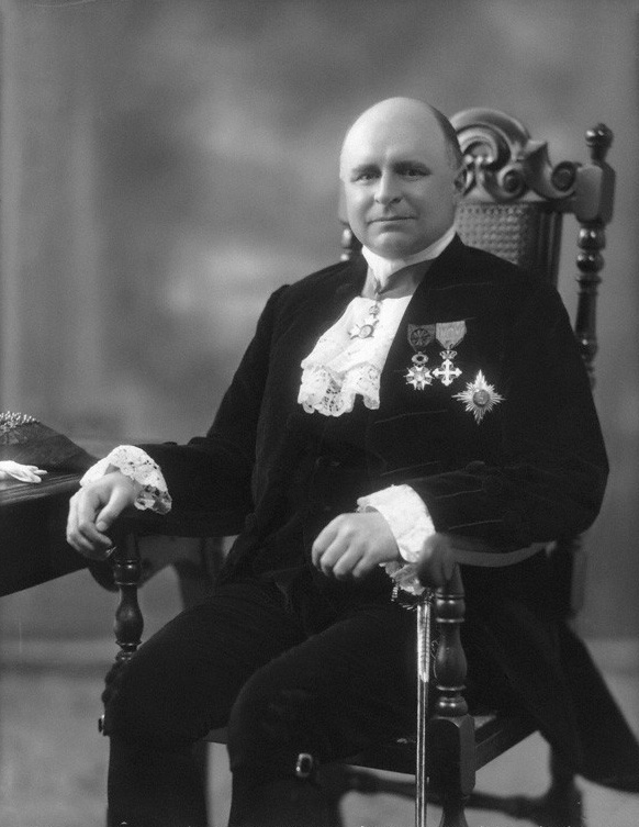 Portrait of William Finlay, 2nd Viscount Finlay (1875–1945)